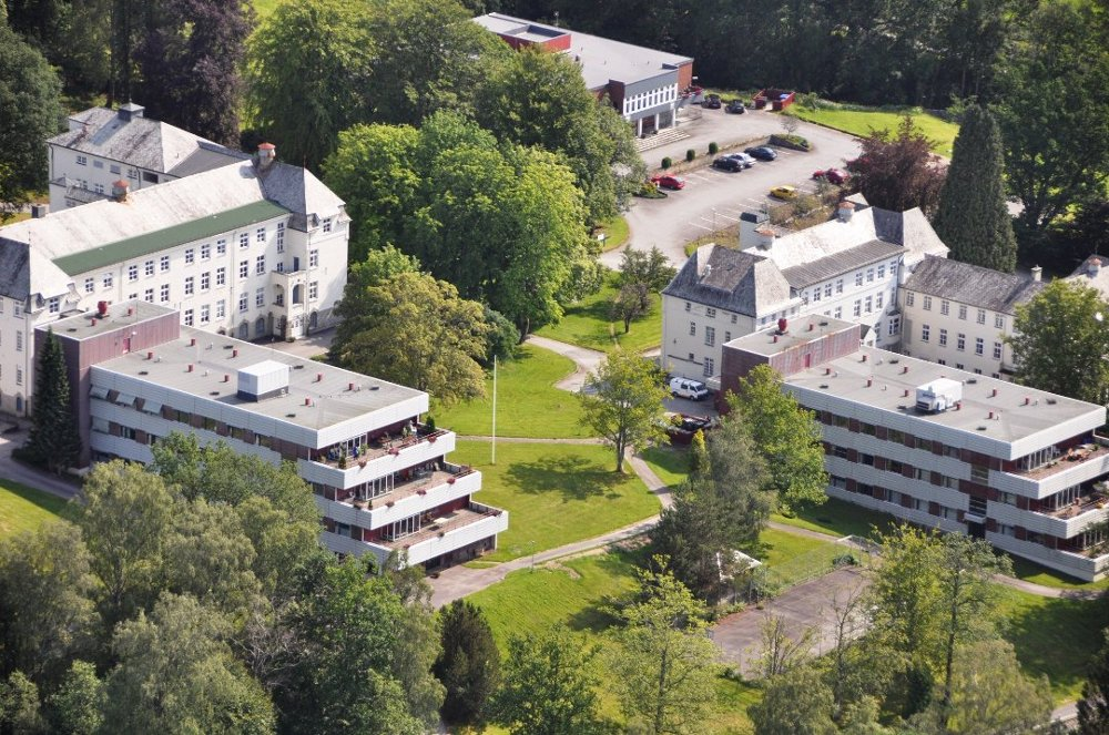 Hospital in Valen